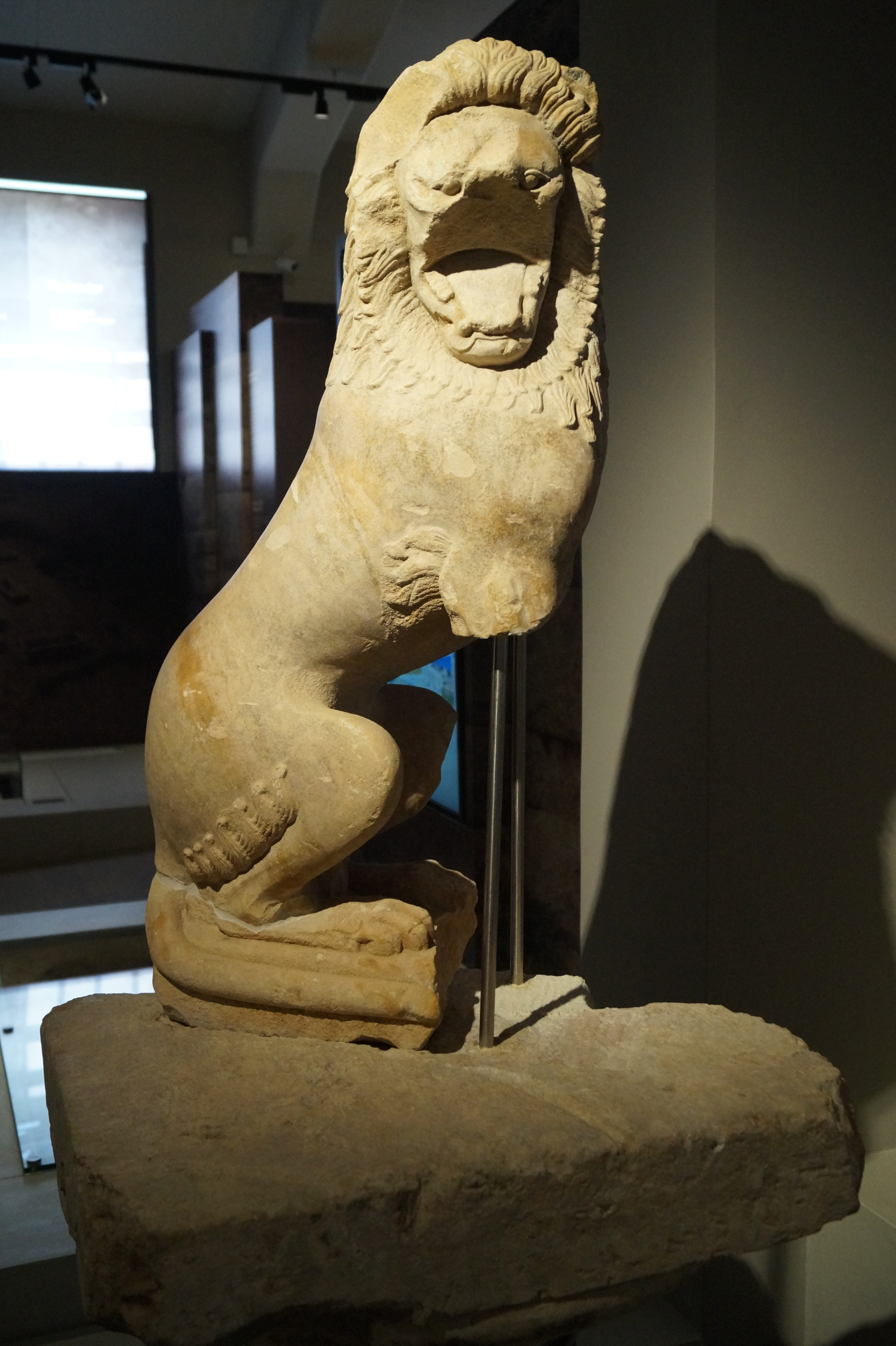 Archaeological Museum of Corinth, Greece: The lion of Korakou.